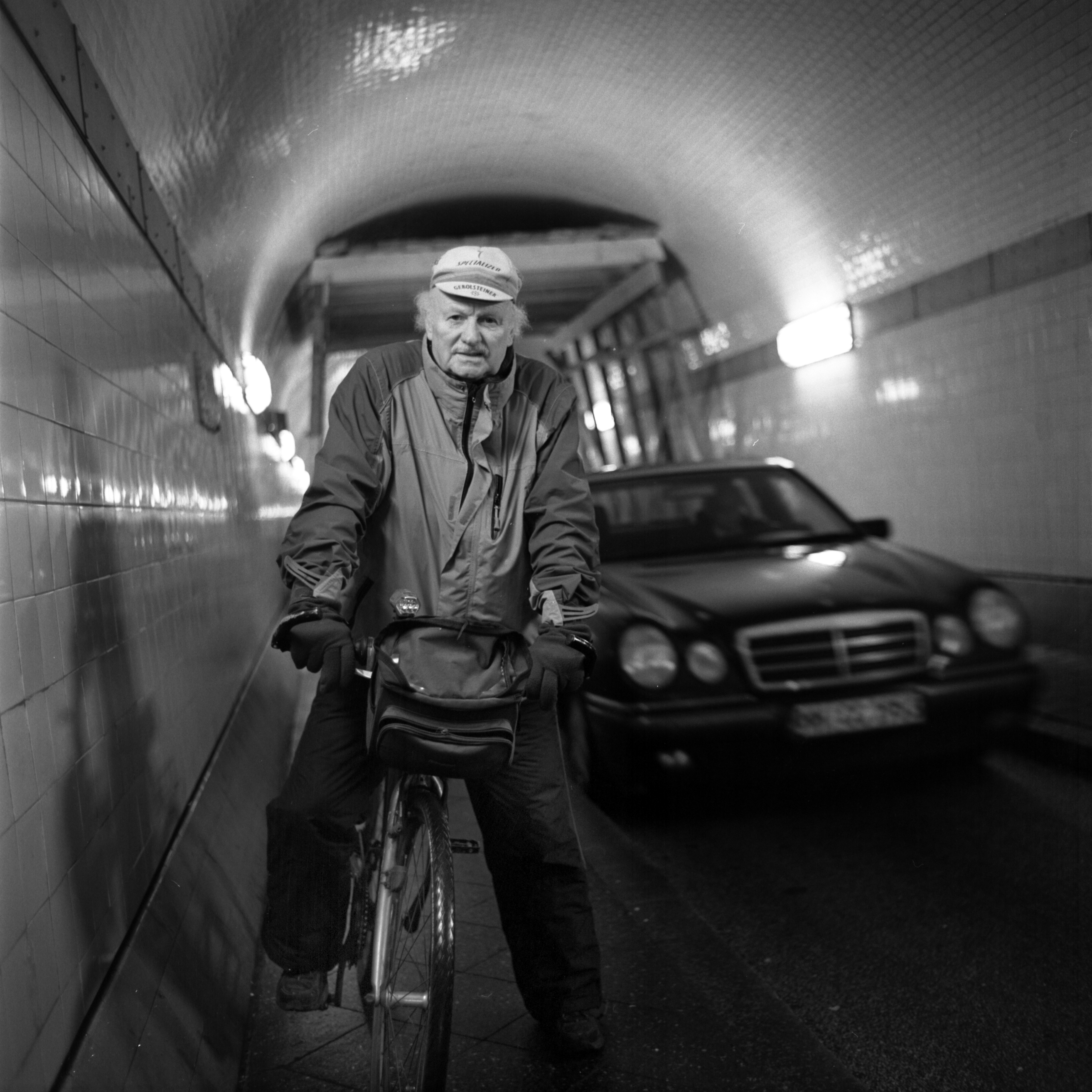 Horst Tomayer riding a bike in the Alter Elbtunnel, Hamburg. Still from the movie "Cycling to Liberation".